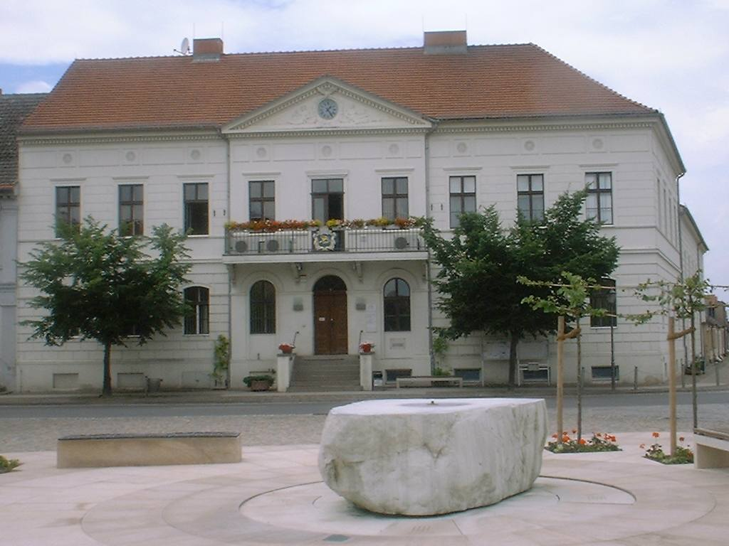 Town hall in Kremmen in Brandenburg, Germany